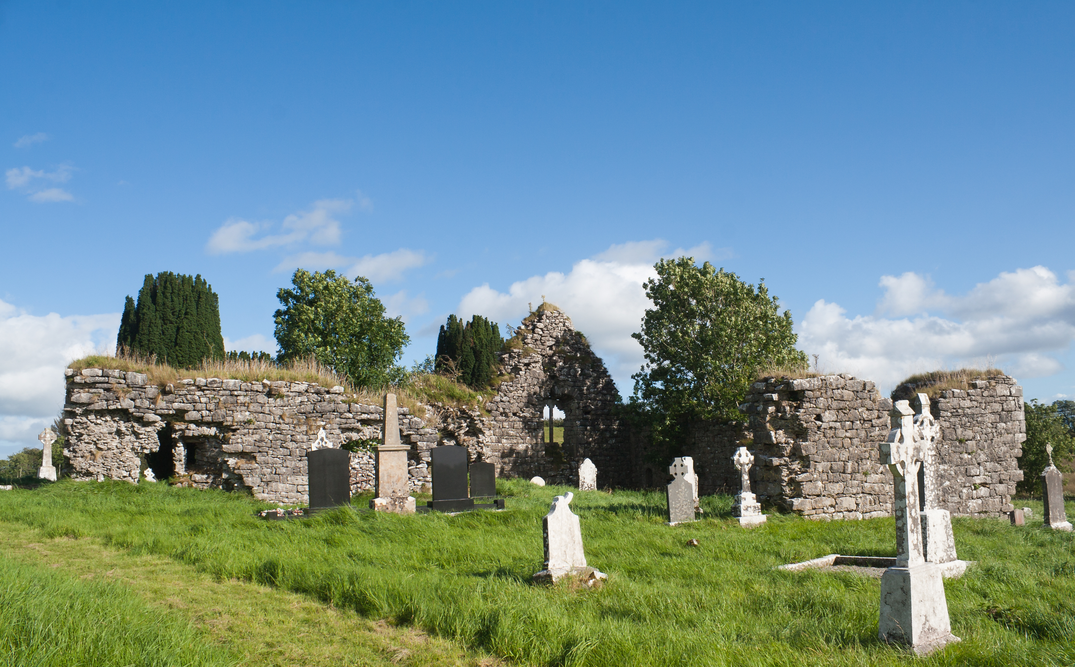 West range of Cloonameehan Friary.